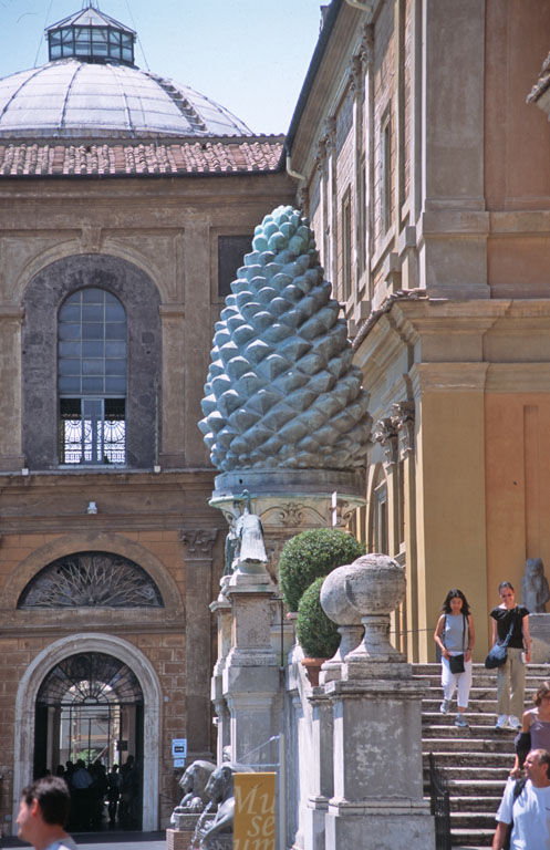 Antique bronze pine cone in the courtyard (Cortile della pigne) of the Vatican Museums.